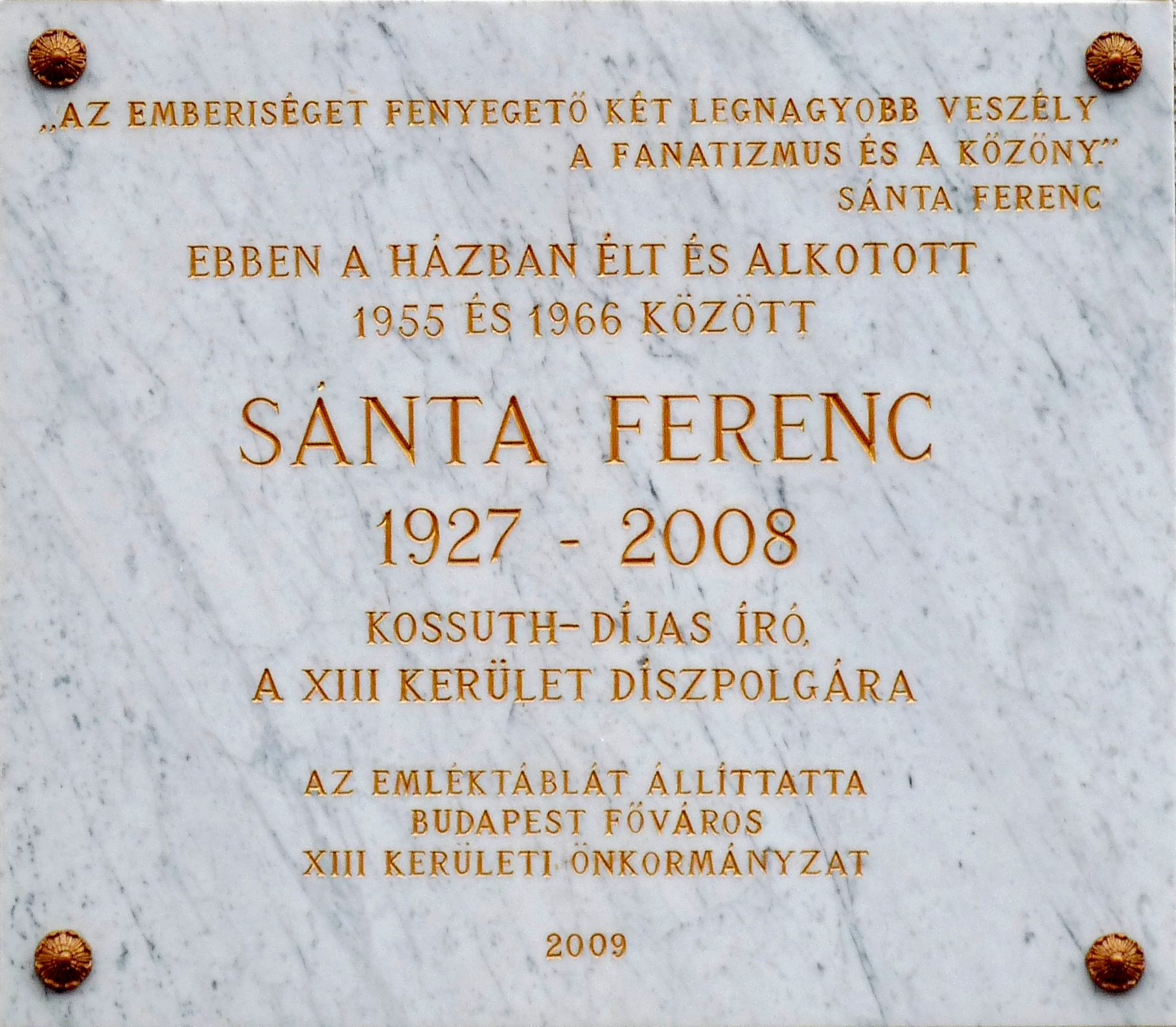 Commemorative plaque to Mr. Ferenc Sánta (1927-2008) Hungarian writer, placed on his former domicile in Budapest, June 10, 2009. (Budapest, District XIII, Vőlegény Street Nr 3/A).